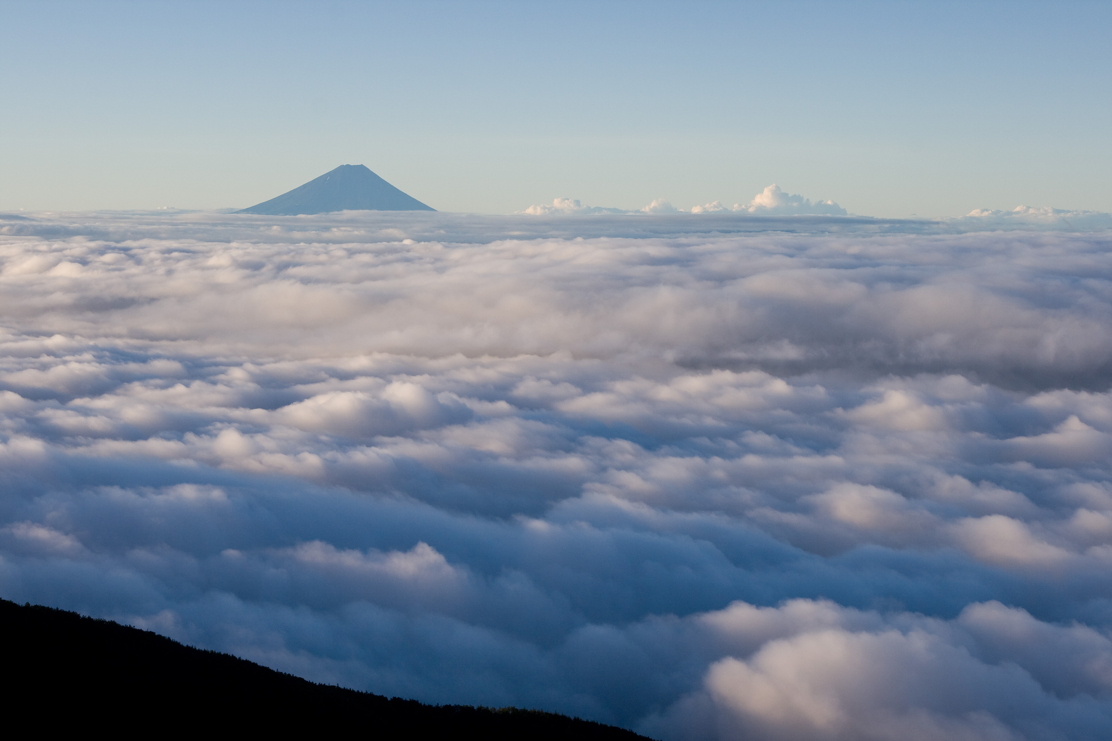 Mt. Fuji as seen from the summit of Mt. Amigasa in the Southern Yatsugatake Volcanic Group, Yamanashi Pref., Honshu, Japan.